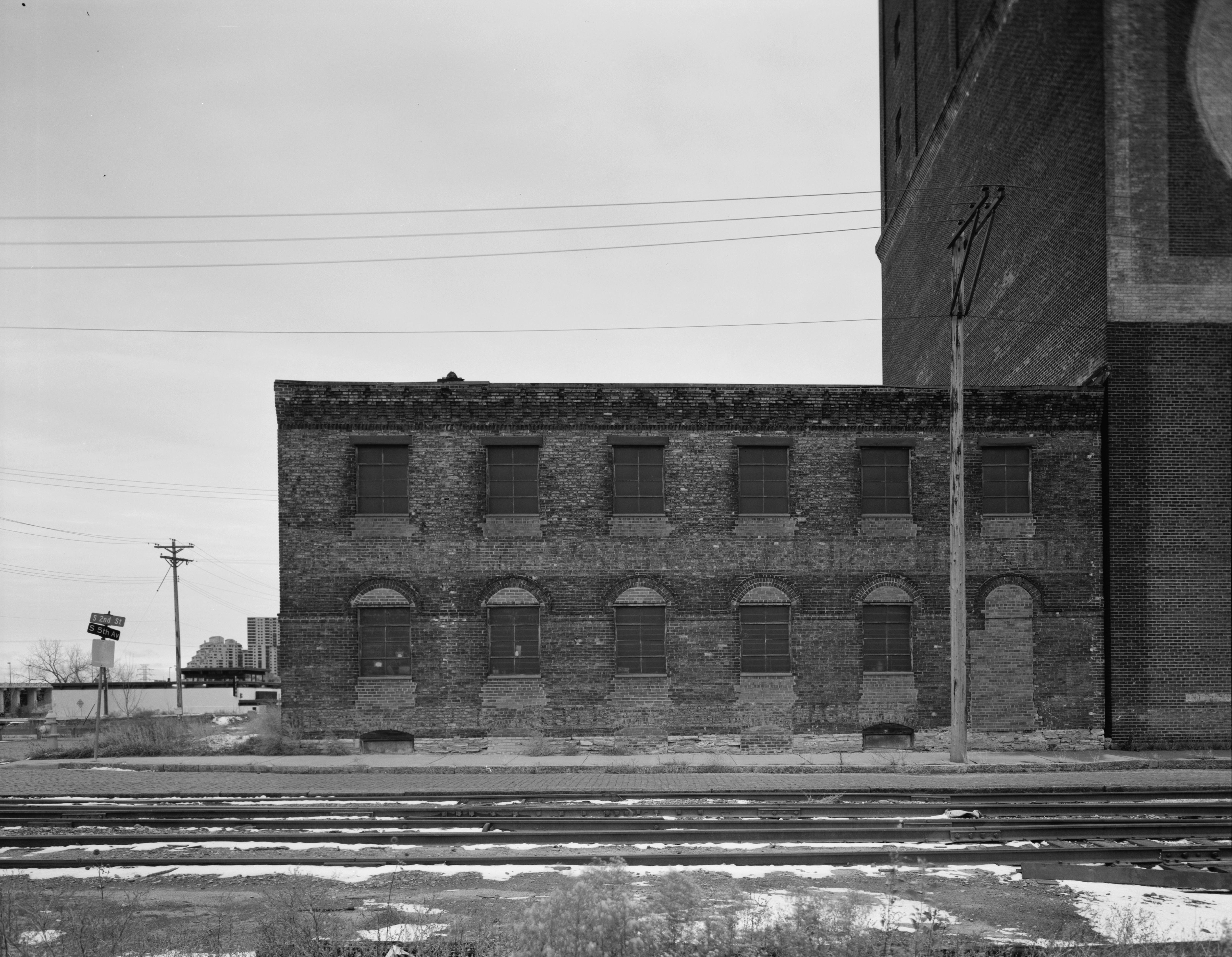 Minneapolis Boiler Works Building, 121-129 Fifth Avenue, South, Minneapolis, Hennepin County, MN. South side, looking north. Part of present day Ceresota Building. Image (1985): Historic American Engineering Record images of Minnesota.